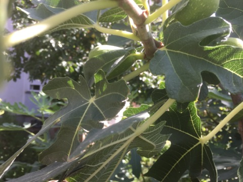 Leaves of Common fig